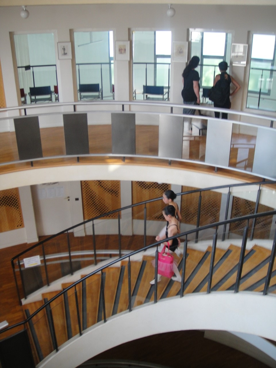 Interior of Paris Opera Ballet School